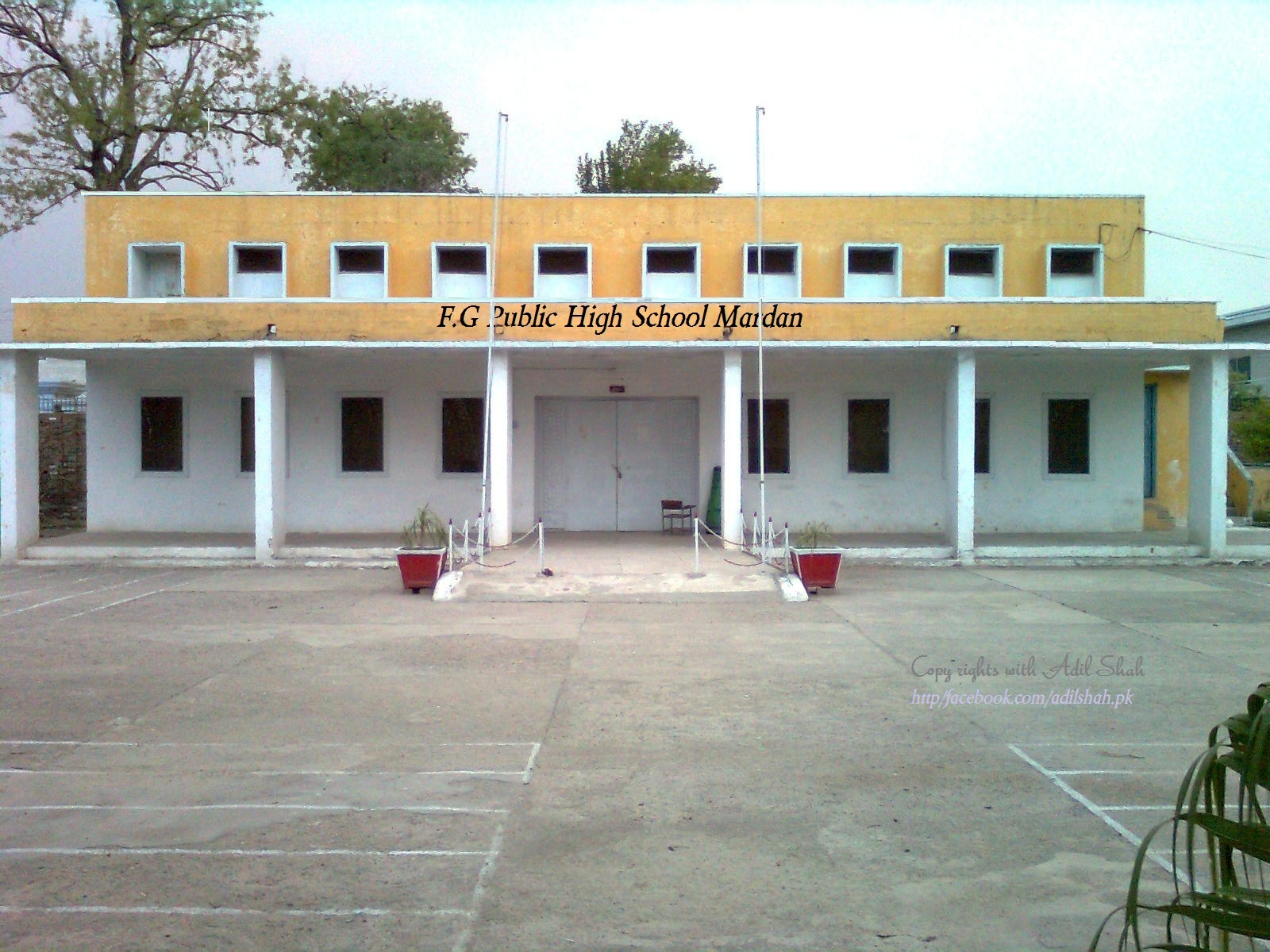 F.G public High School Mardan by: Adil Shah